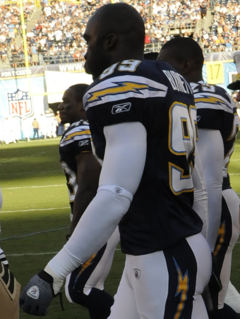 SAN DIEGO (August 21, 2010) Commander, Navy Region Southwest, Rear Adm. William D. French and players from the San Diego Chargers walk on to the field for the coin toss as part of the San Diego Charger’s 22nd Annual Salute to the Military. The Annual Salute to the Military exhibits the support the military receives from the San Diego Community. (Photo by Mass Communication Specialist 1st Class Donald Walton/ Released)